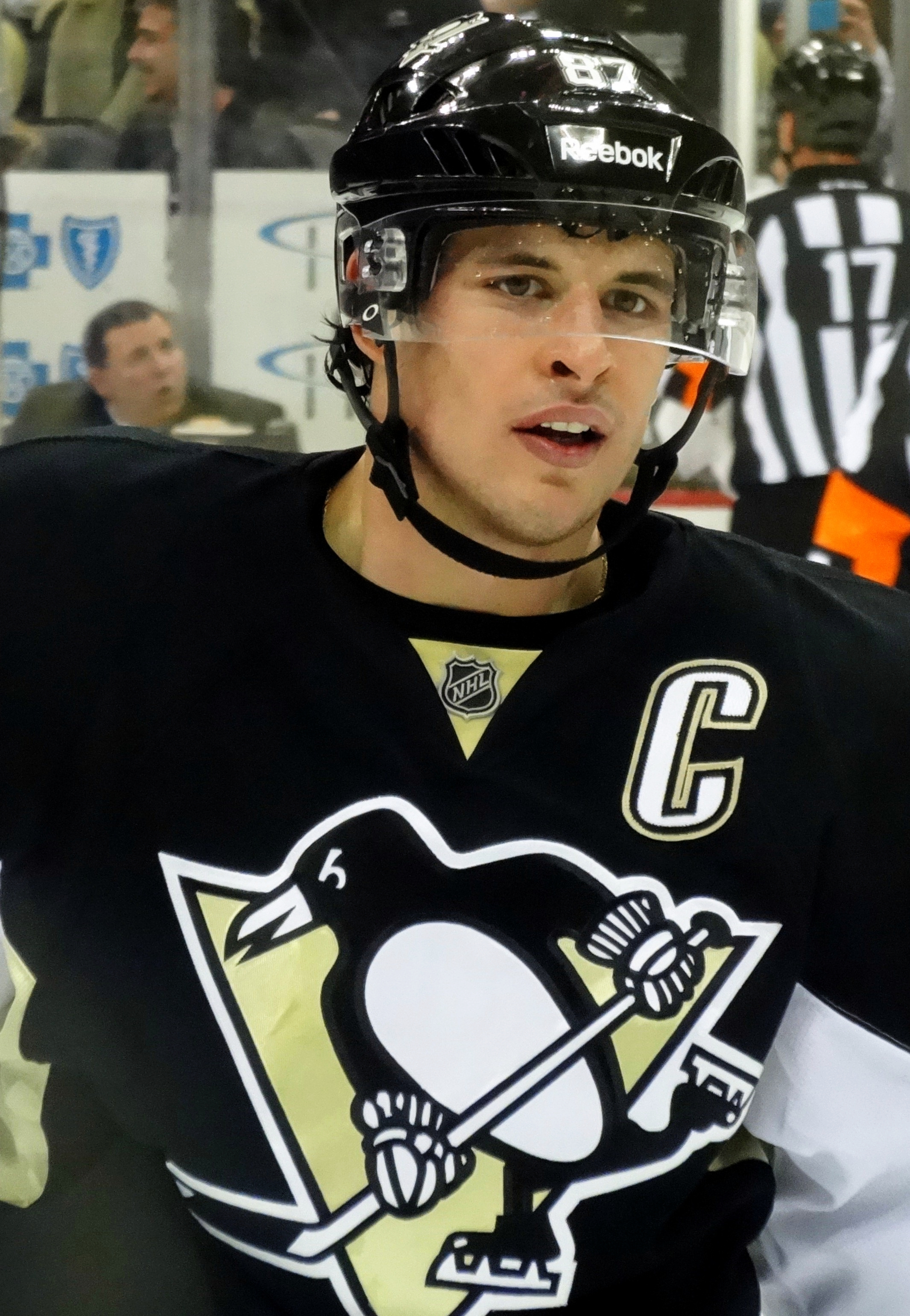 Pittsburgh Penguins captain Sidney Crosby skates against the New Jersey Devils at Consol Energy Center, February 2, 2013 in Pittsburgh, PA.